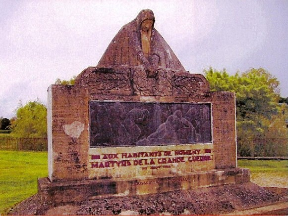 Memorial at Nomeny in Lorraine